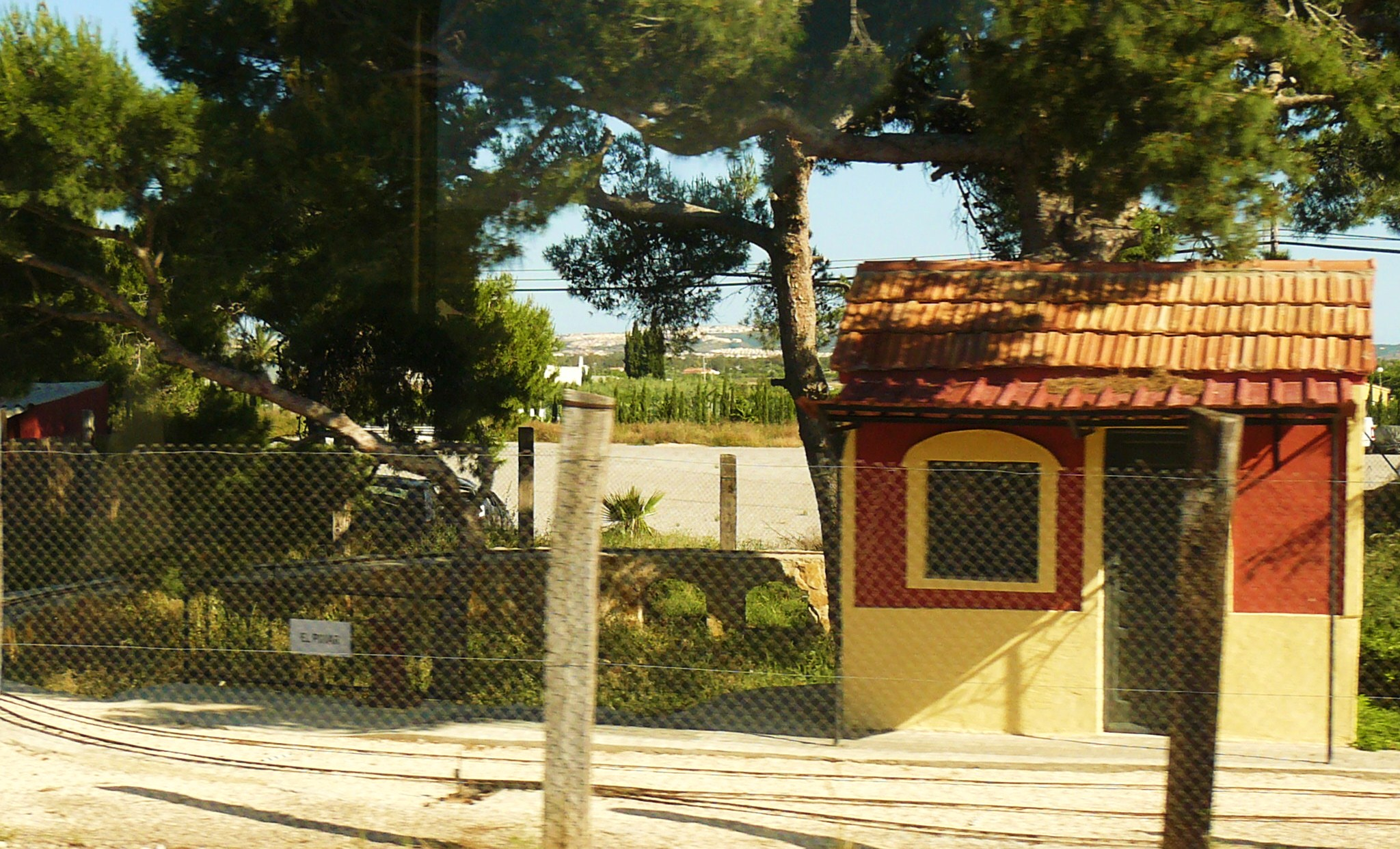 Torrellano Rail Museum - Gardem Railway Station. Spain.